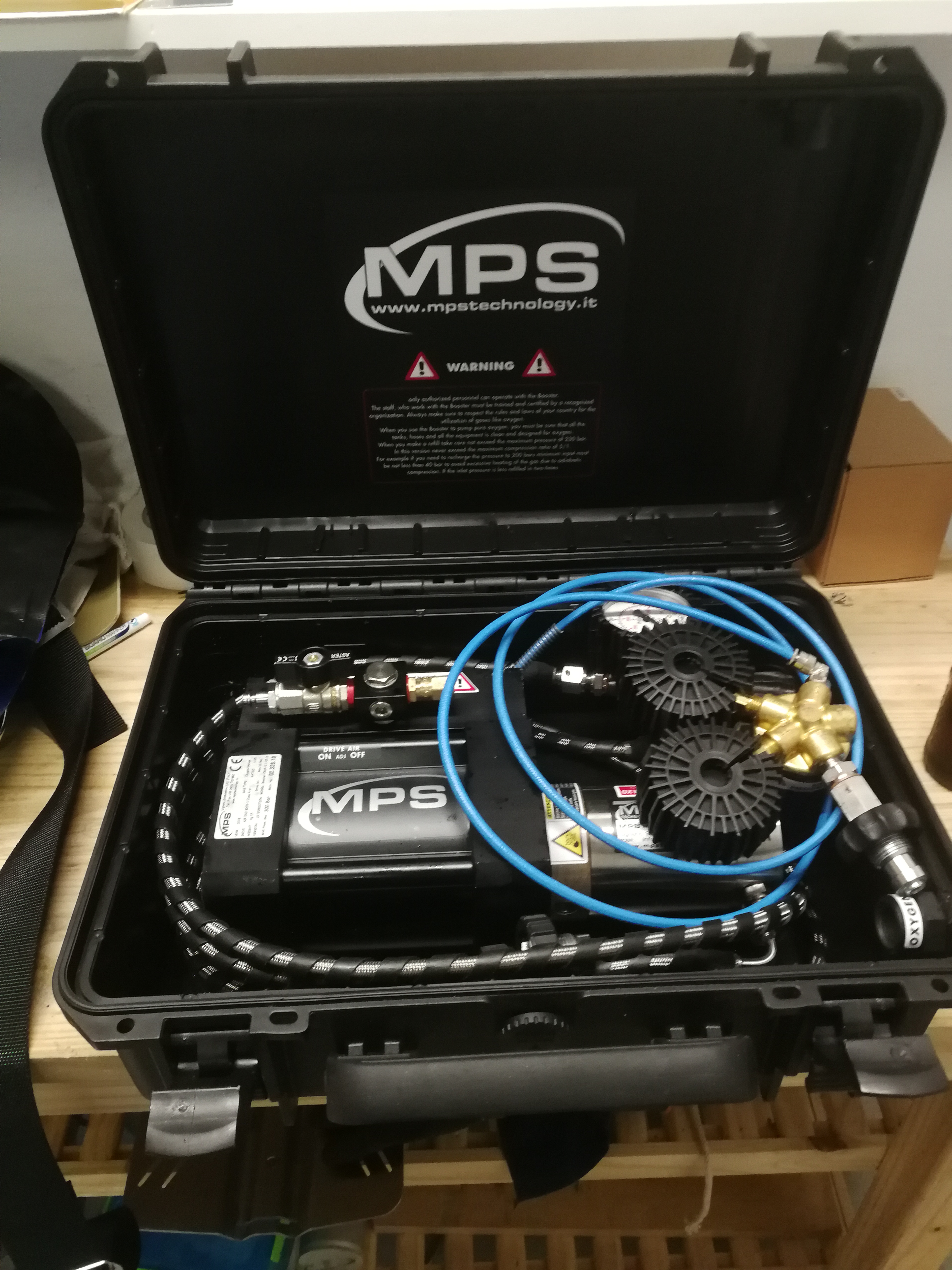 Small portable compressed air powered breathing gas booster suitable for boosting helium and oxygen and breathing mixtures for scuba diving